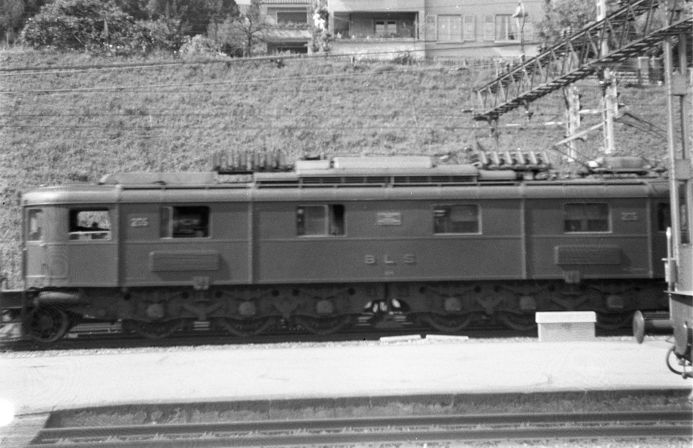 Swiss BLS Ae 6/8 205 electric locomotive departs from Spiez (not Interlaken Ost station as stated on flickr) in 1957.